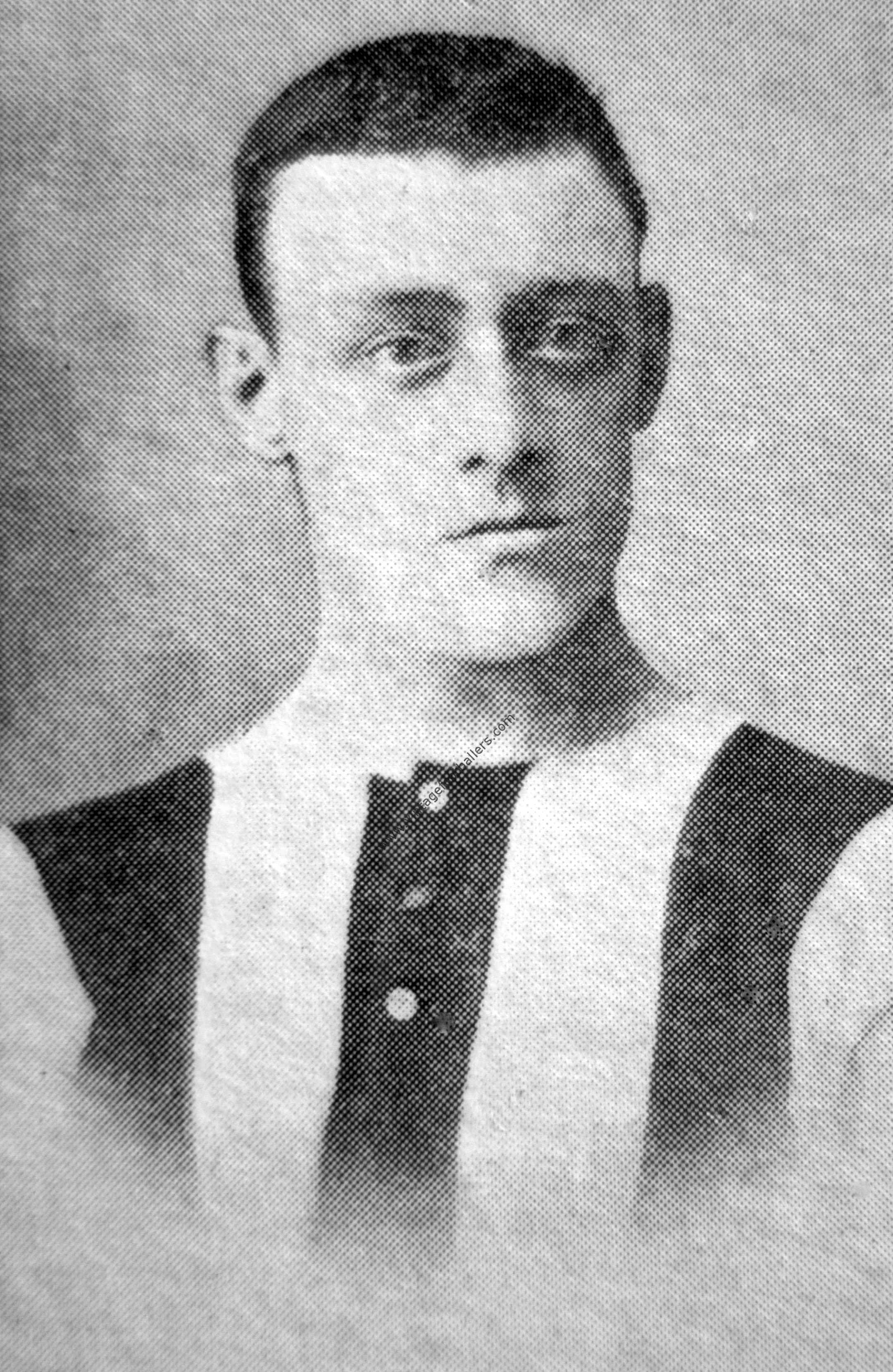 English footballer Walter Bull with the Notts County shirt.